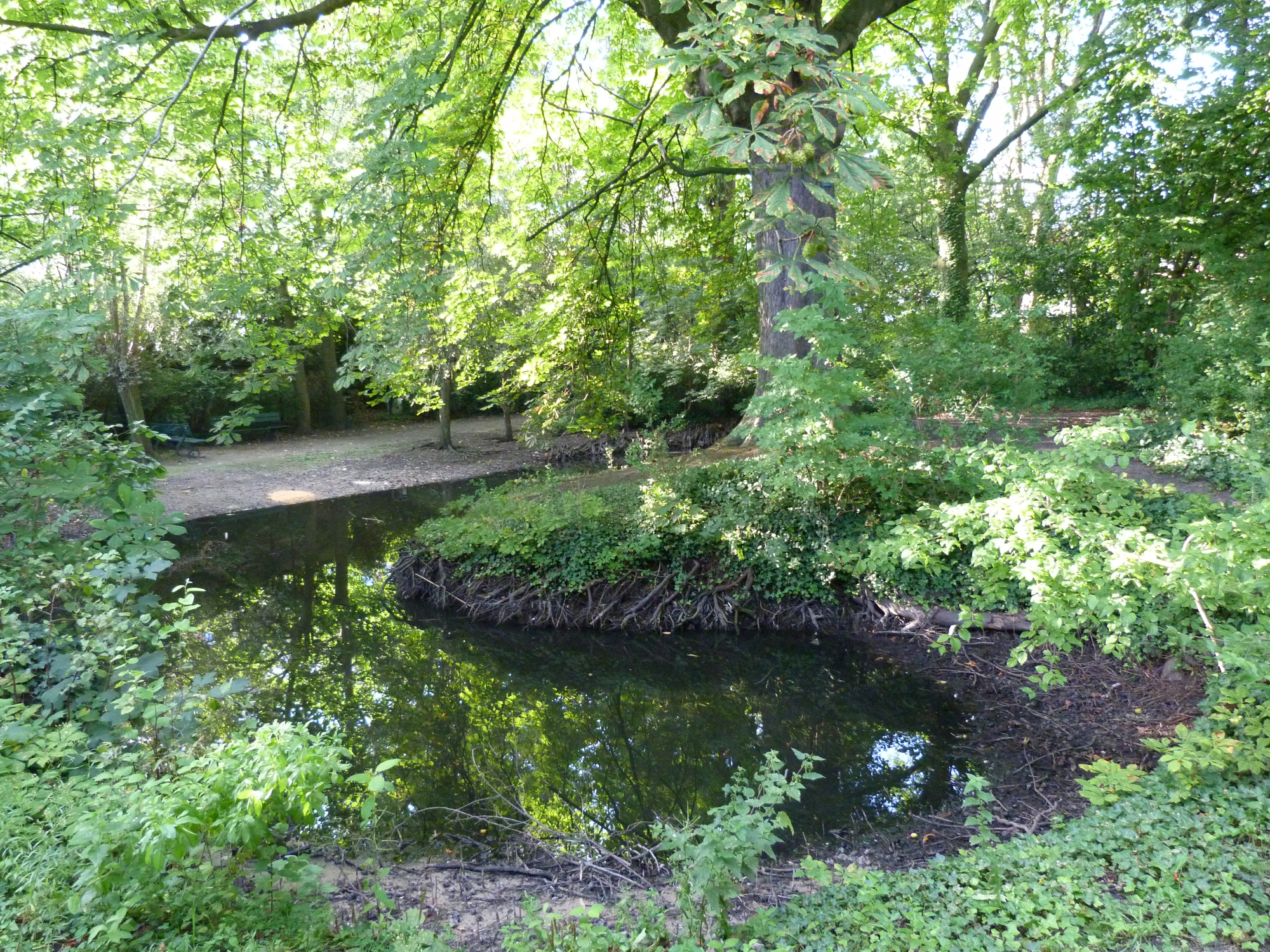 Pastoor van Haeckeplantsoen, Bruges